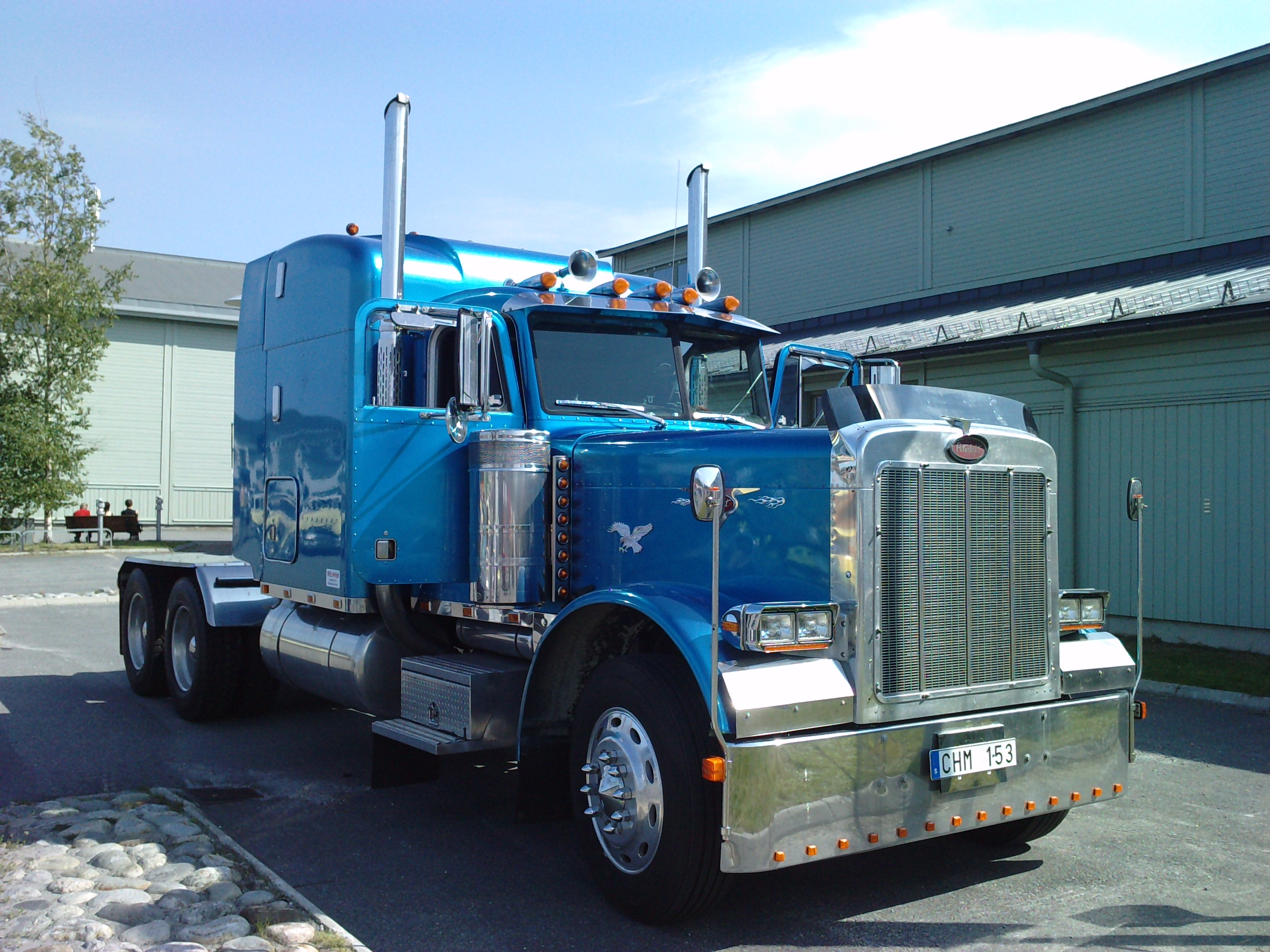 A 1989 Peterbilt 379 in Umeå, Sweden